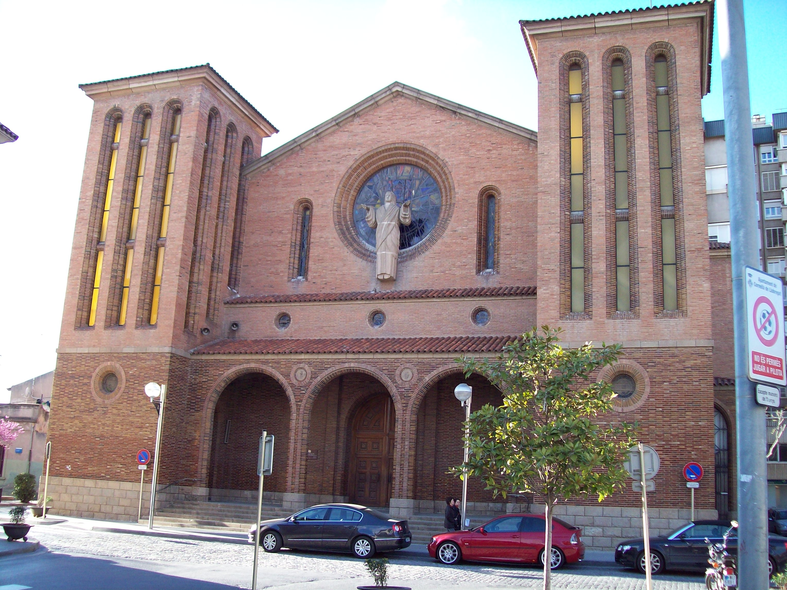 Iglesia de Santa Maria (Cornellà de Llobregat, 1940)